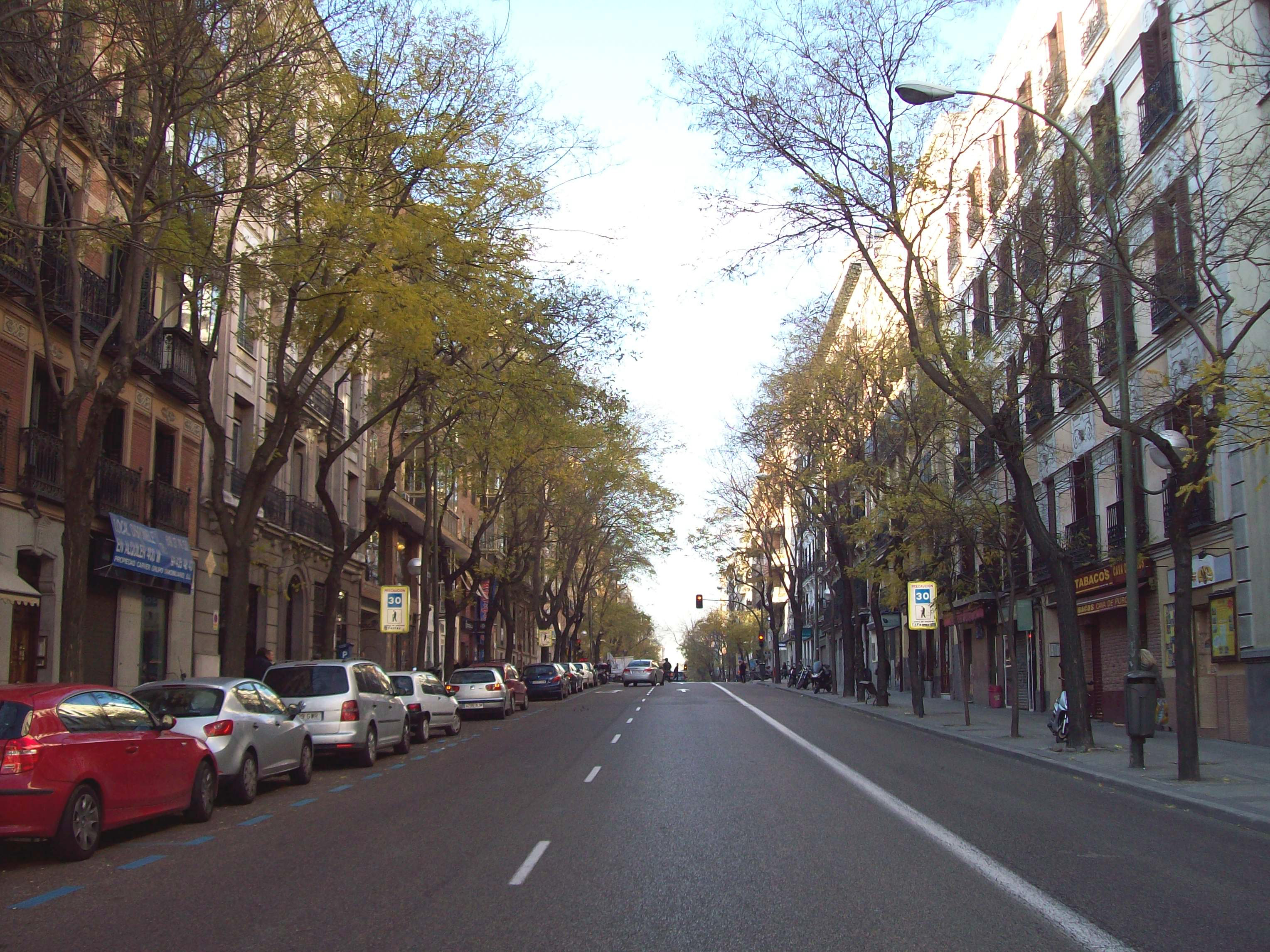 View from Calle de Ferraz (street) in Moncloa-Aravaca district in Madrid (Spain).